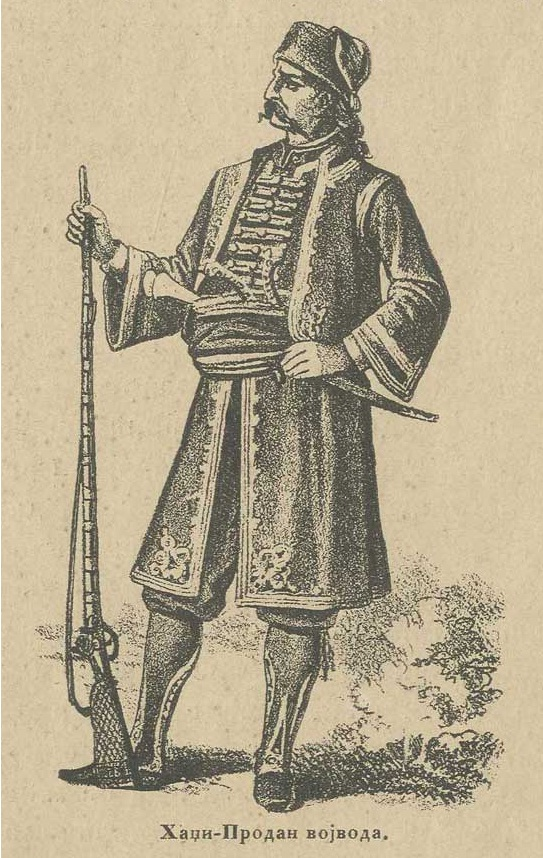 Hadži-Prodan, Serbian rebel from Serbian revolution (1804-1815)